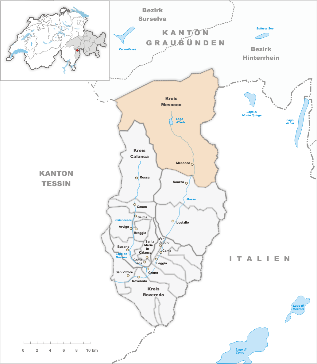 Municipality Mesocco